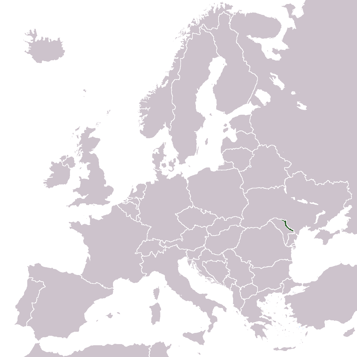 Location of Pridnestrovie in Europe